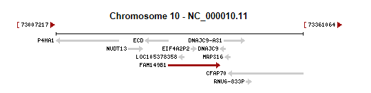 A short segment of Chromosome 10, which shows the location of the FAM149B1 gene and the genes surrounding it.